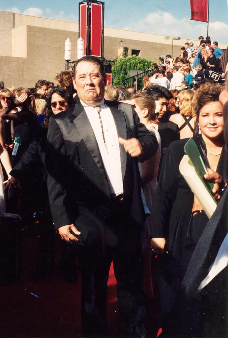 Barry Corbin on the red carpet at the Emmys 9/11/94